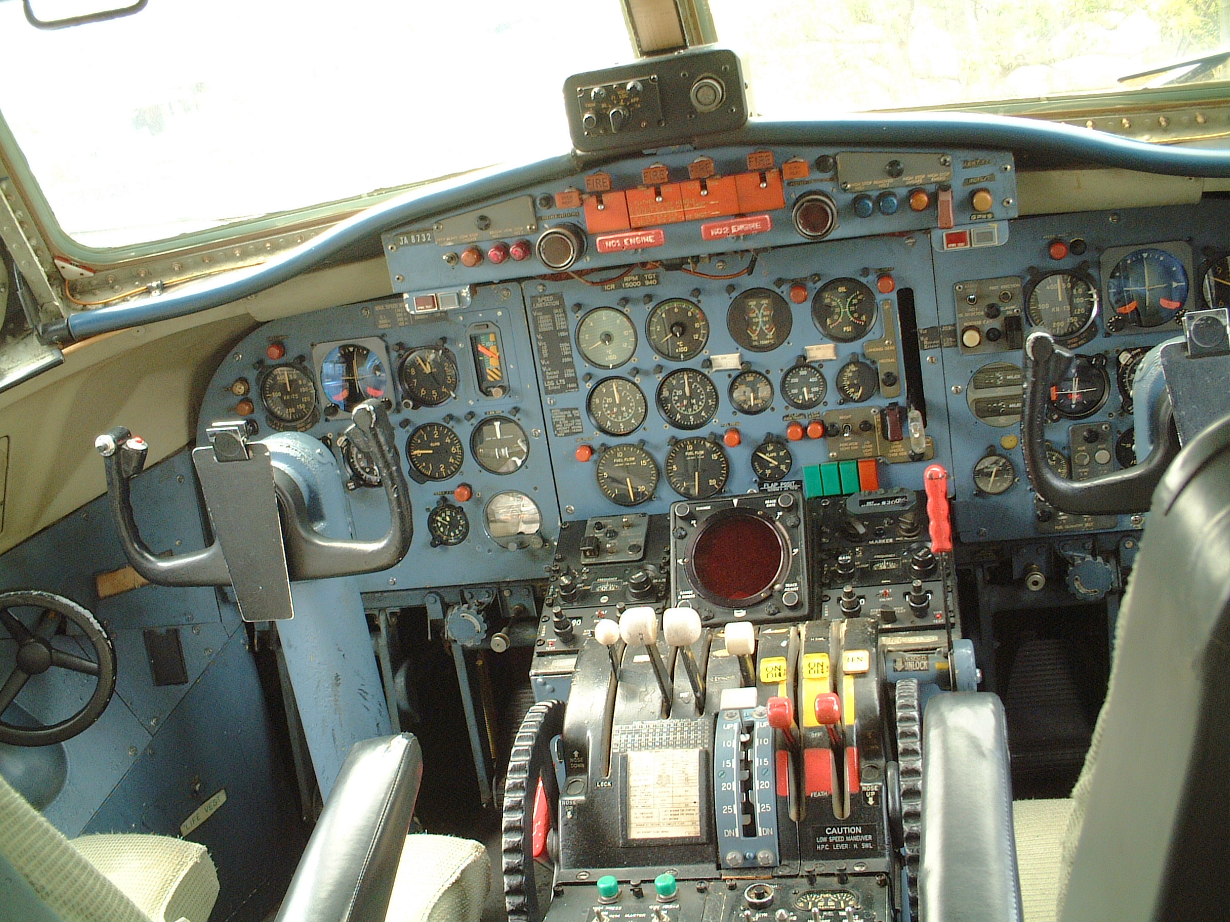 Cockpit of retired NAMC YS-11 aircraft. Photo is taken in Kōkū-kinen-kōen, Tokorozawa, Saitama, Japan.